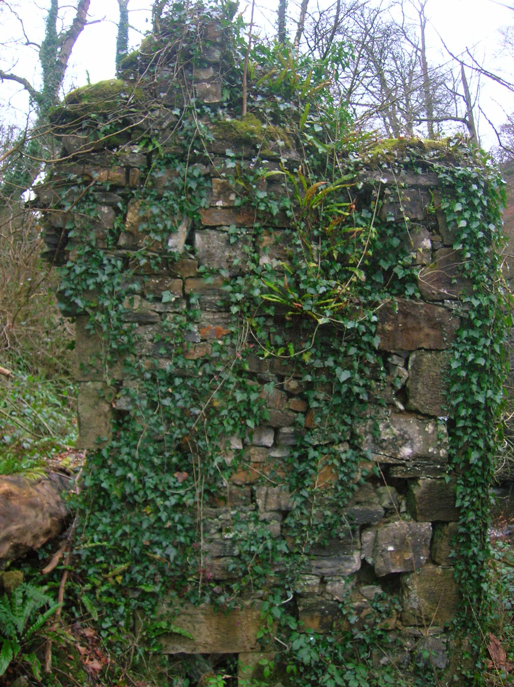 Craig Mill gable end, facing the Lynn Spout, Dalry, North Ayrshire, Scotland.